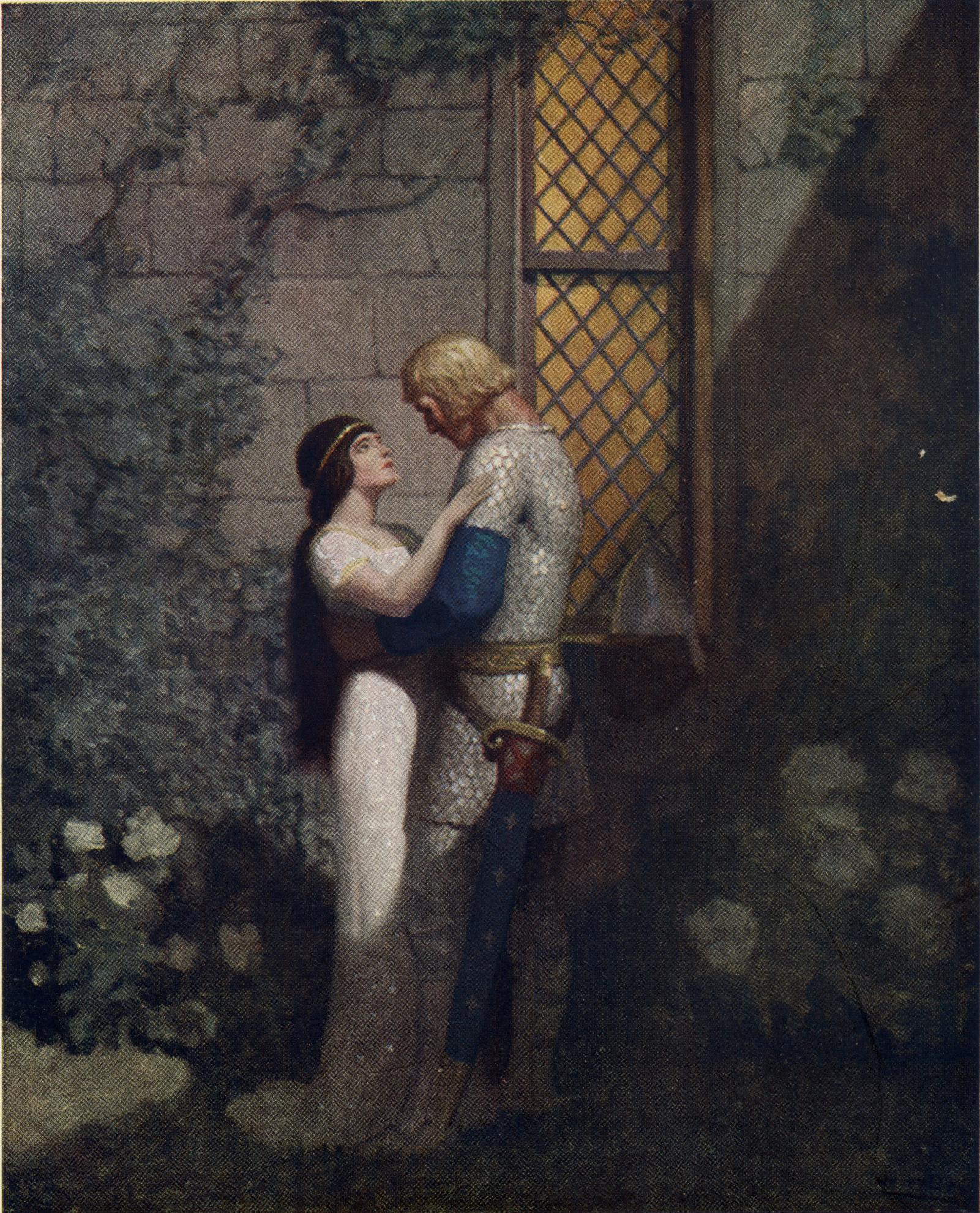 Illustration from page 130 of The Boy's King Arthur: Tristram and Isolde - "'Oh, gentle knight,' said la Belle Isolde, 'full woe am I of thy departing'"